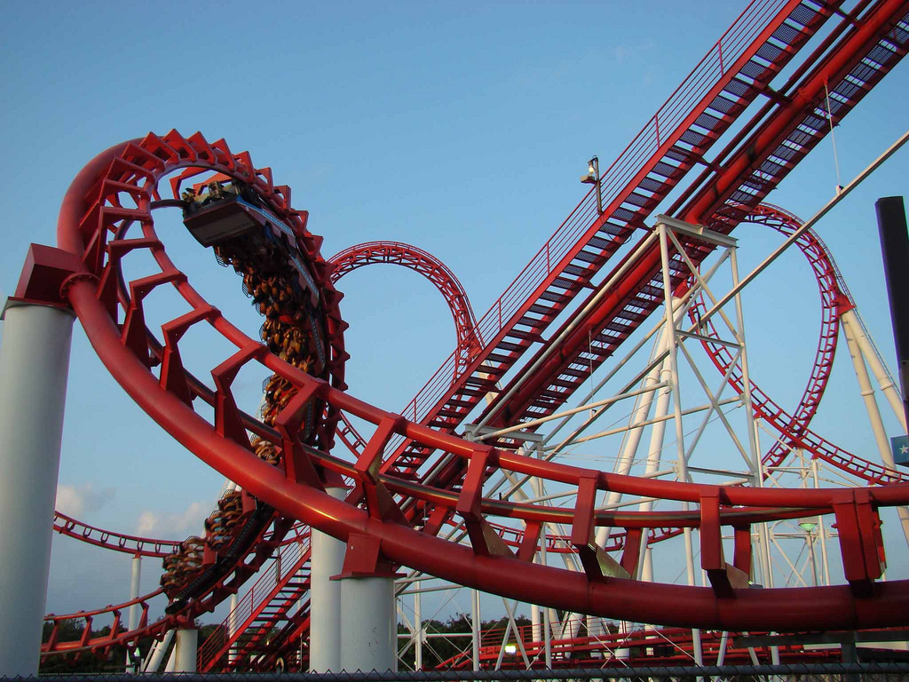 In Six Flags Great Adventure, Jackson (NJ)